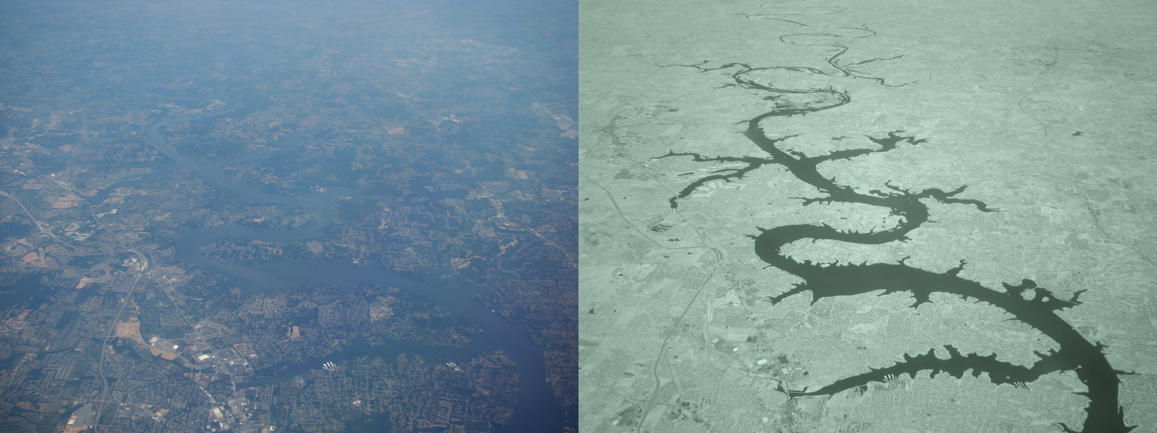 This two shot was taken from a passenger airplane flying from Atlanta to Chicago using SONY H-9 Digital camera. The one on the left is normal photo. The one on the right was taken with camera in Night Shot mode and through 900nm Low Pass filer. I think this is good demonstration of the haze cutting ability of infrared vision techniques. Following is the link to the Panoramio page that shows approximate location of where this image pair was captured